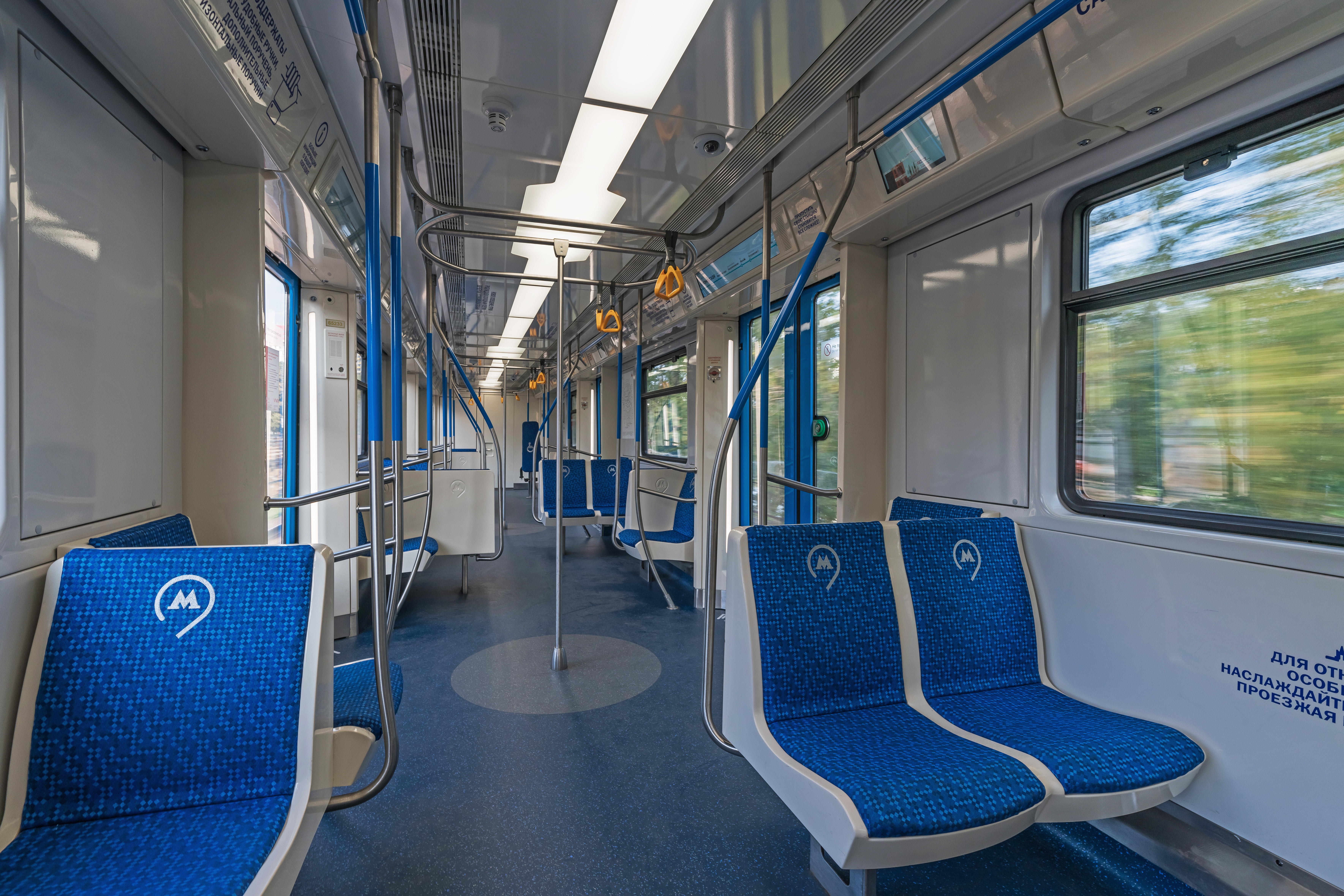 Interior of a 81-765 (Moskva) metro train on Filyovskaya Line in Moscow, Russia